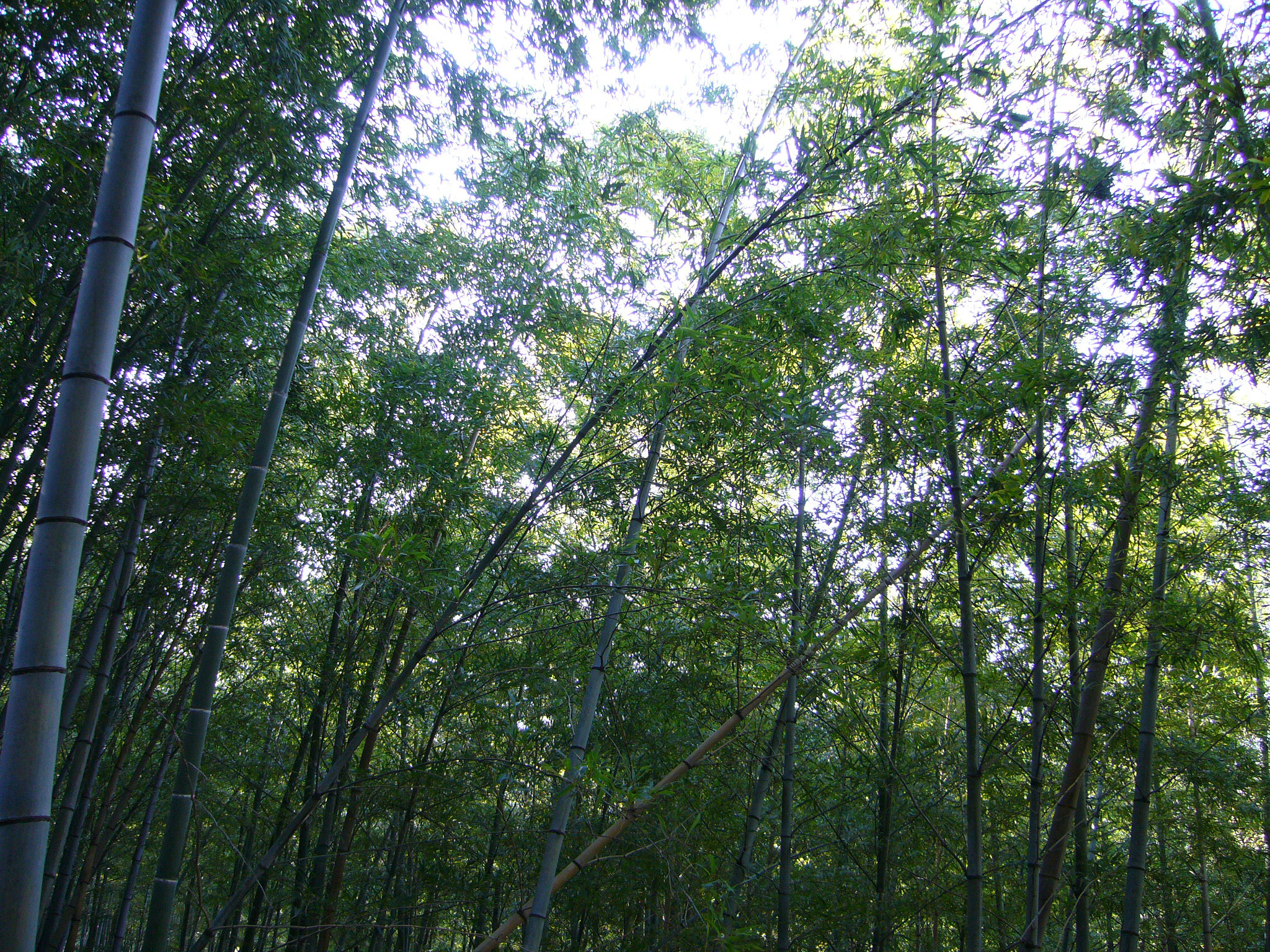 Rinsho-ji in Sennan, Osaka prefecture, Japan